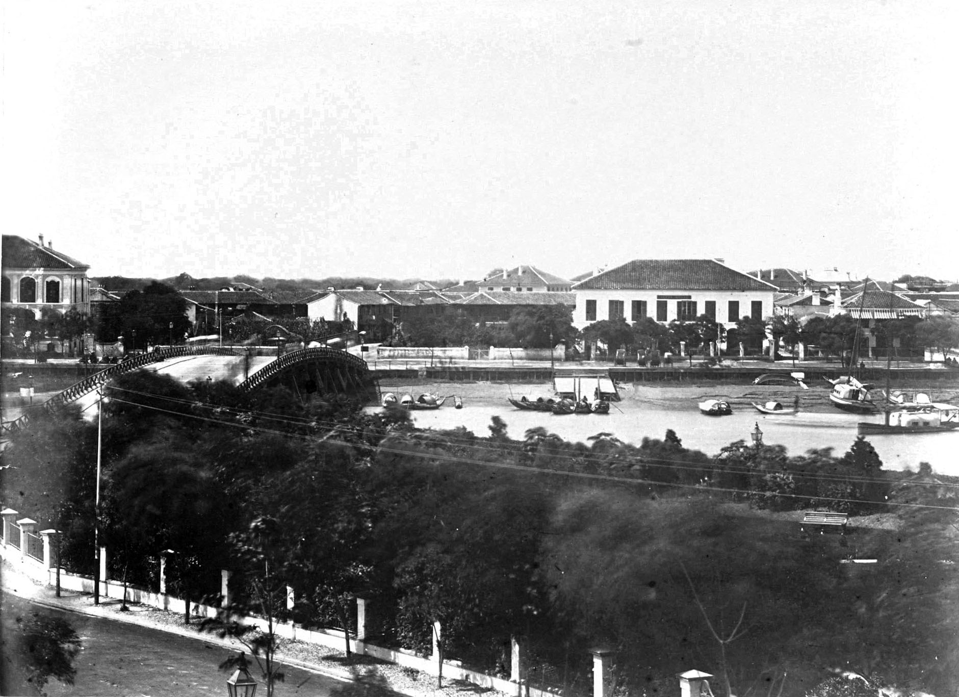 Photograph in From Afong, Photographer.